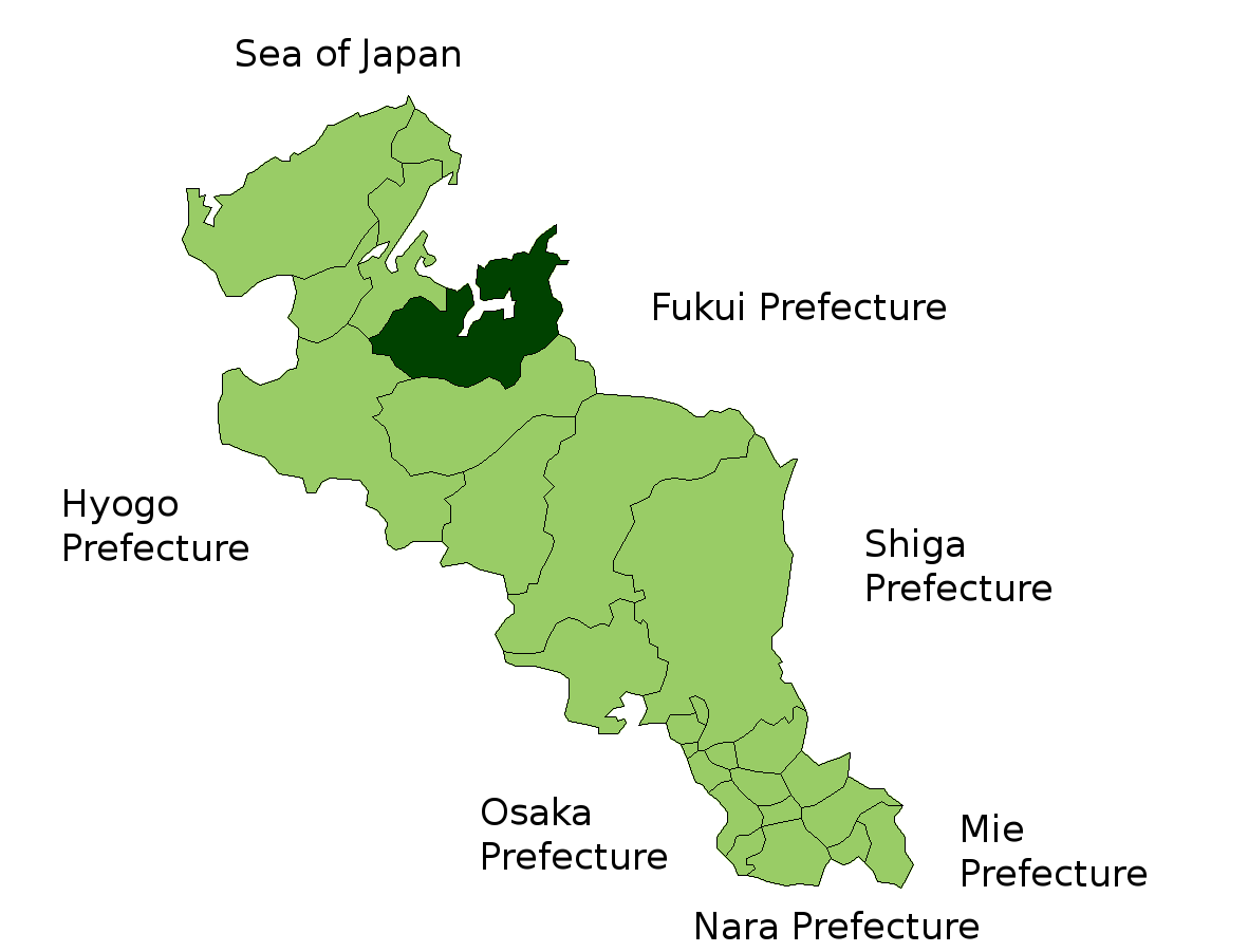 Location Map of Maizuru in Kyoto-fu, Japan